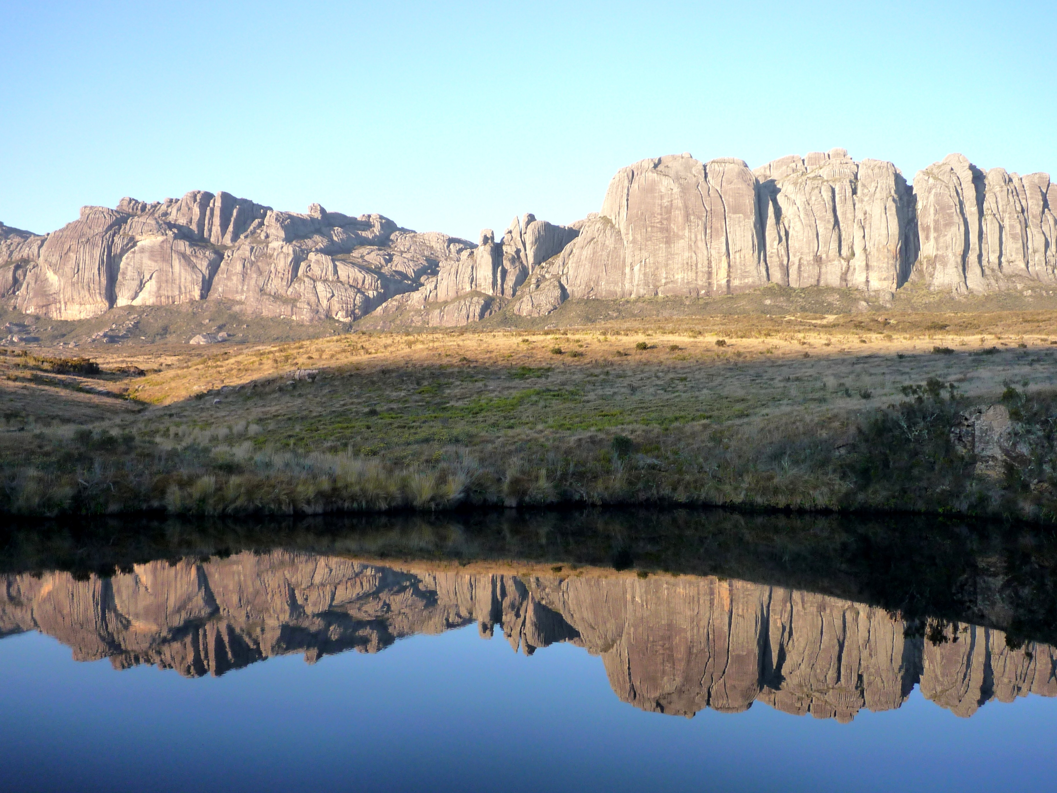 Reflections at Andringitra National Park, Madagascar.